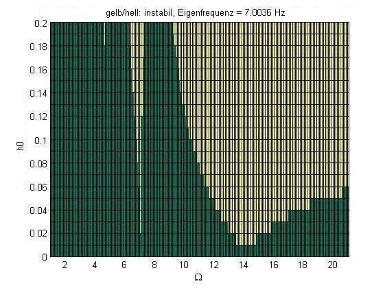 Numerische Lösung der Mathieu-Gleichung